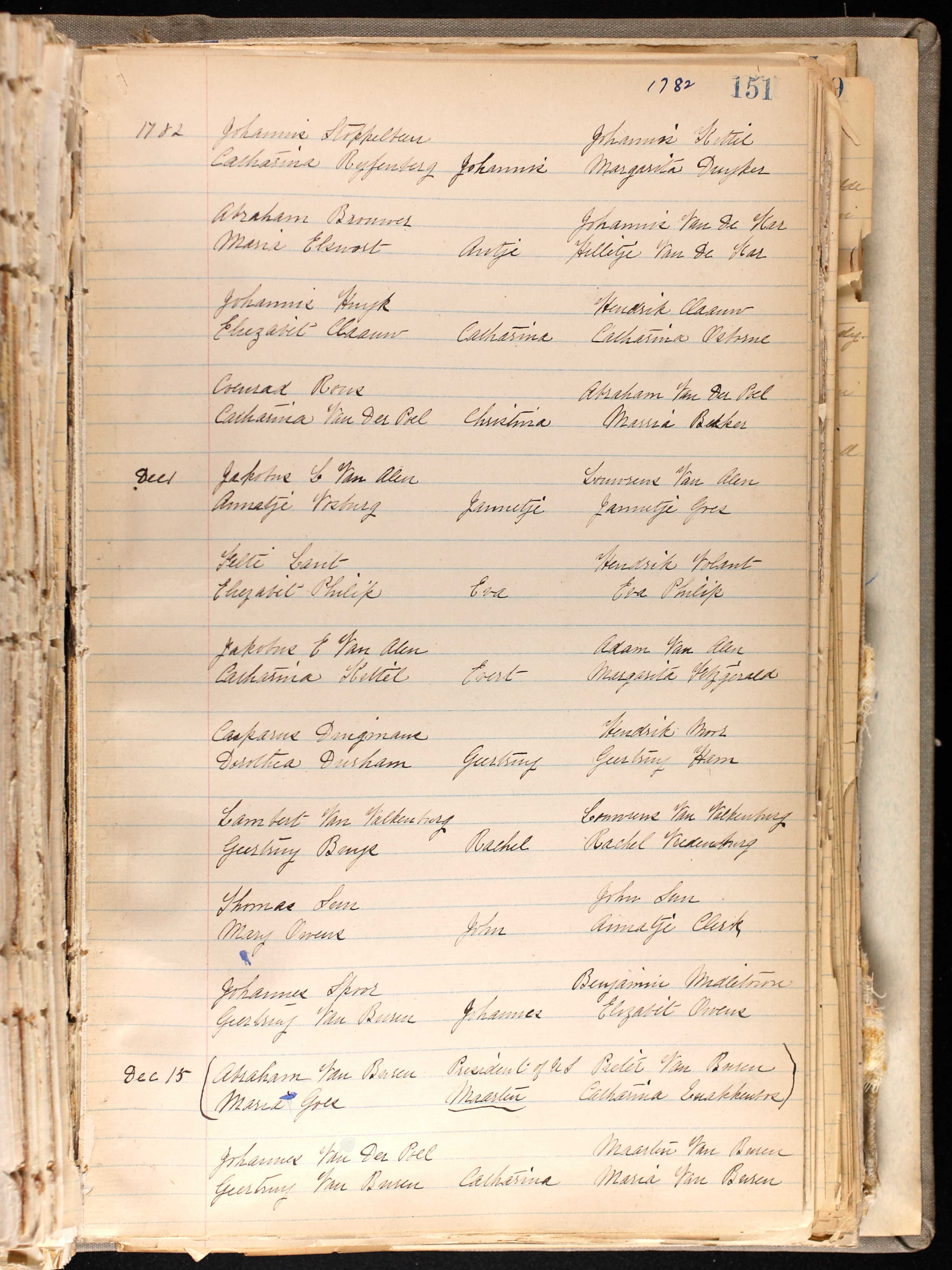 Page from baptism record at Kinderhook, New York Dutch Reformed Church. President Martin Van Buren was baptized on December 15, 1782.